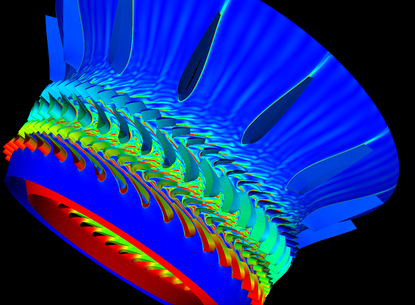 Velocity non-uniformities due to blade wakes are a main tone noise generation mechanism. Blades are colored by static pressure and the flow field shows vorticity.